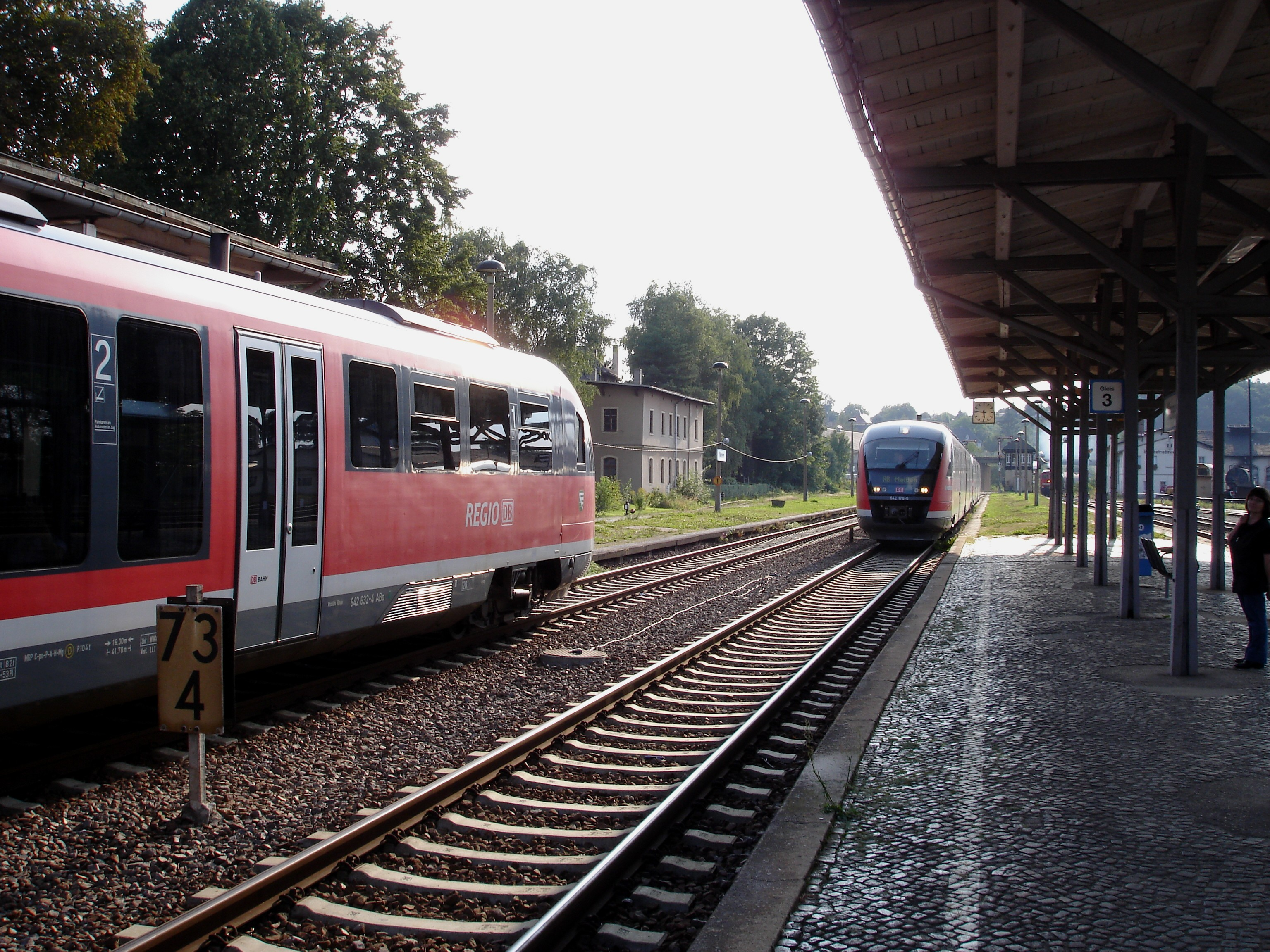 station Nossen, Saxony, Germany